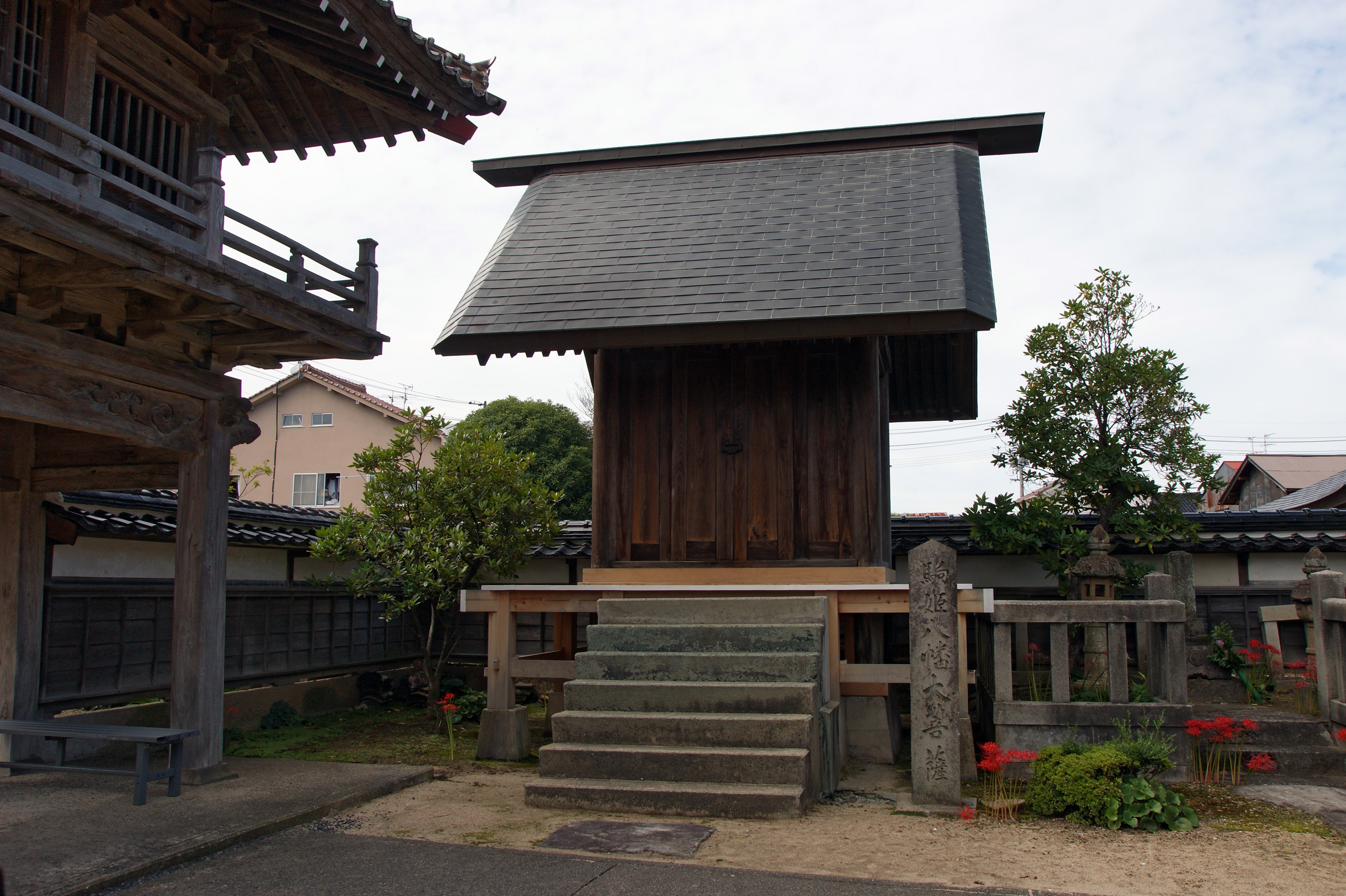 Daigakuin in Kurayoshi, Tottori prefecture, Japan